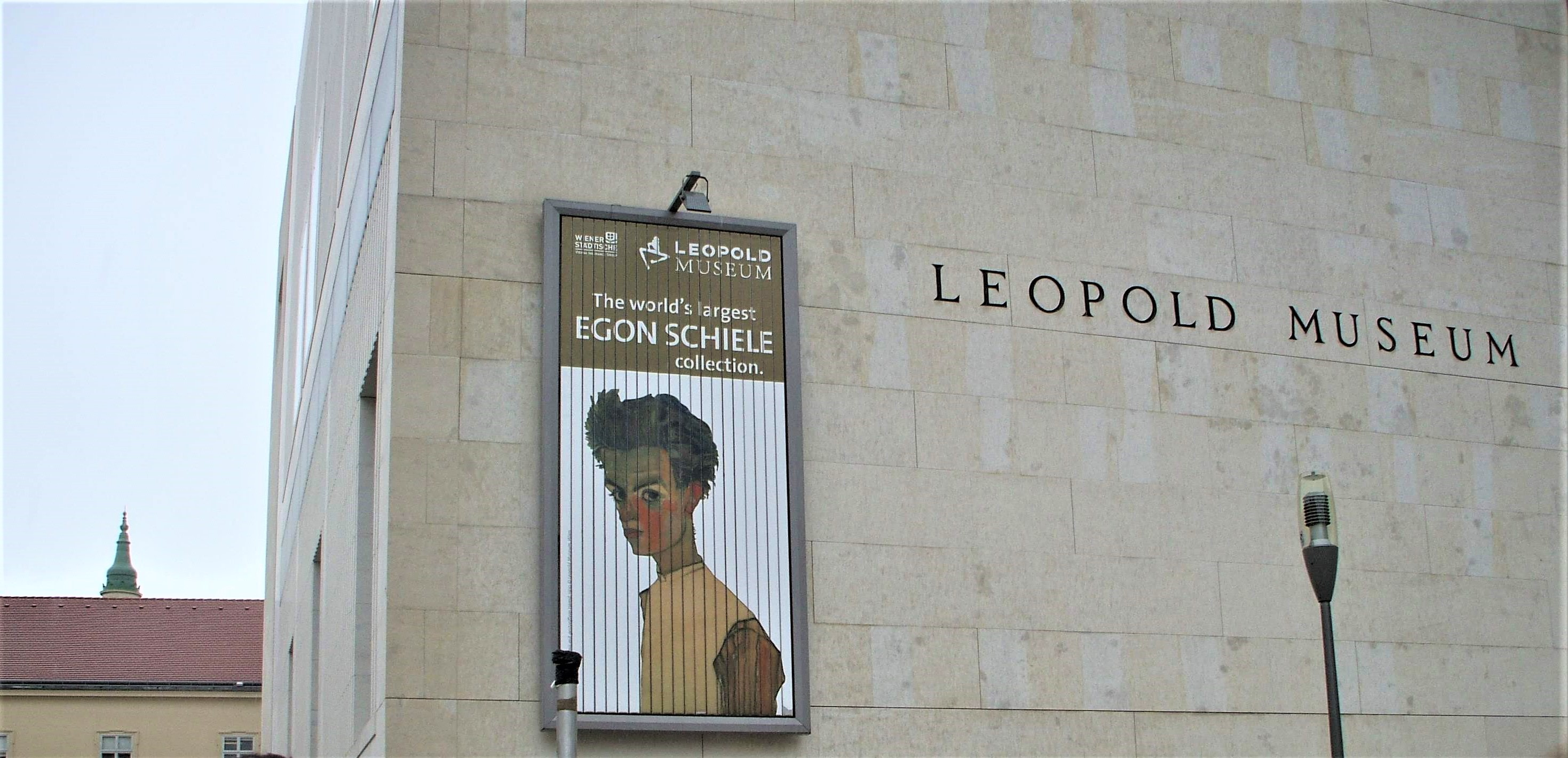 A photo taken in 2008 of the Vienna Leopold Museum, featuring a banner of the Egon Schiele collection